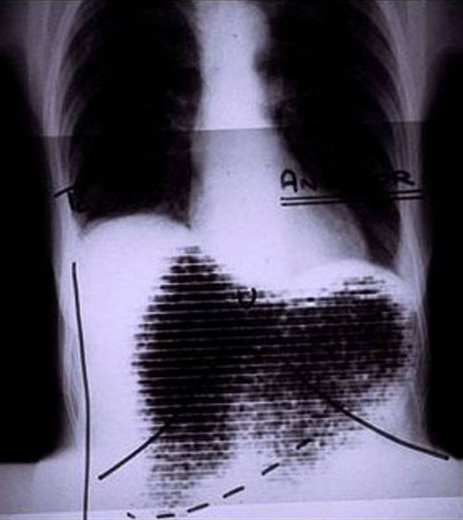 A fusion of a rectilinear scan using I-131 rose Bengal with a chest X-ray outlining the position of the diaphragm was used to diagnose subphrenic abscess before the availability of CT scanning and ultrasound. This represented one of the first examples of “anatamometabolic” imaging.